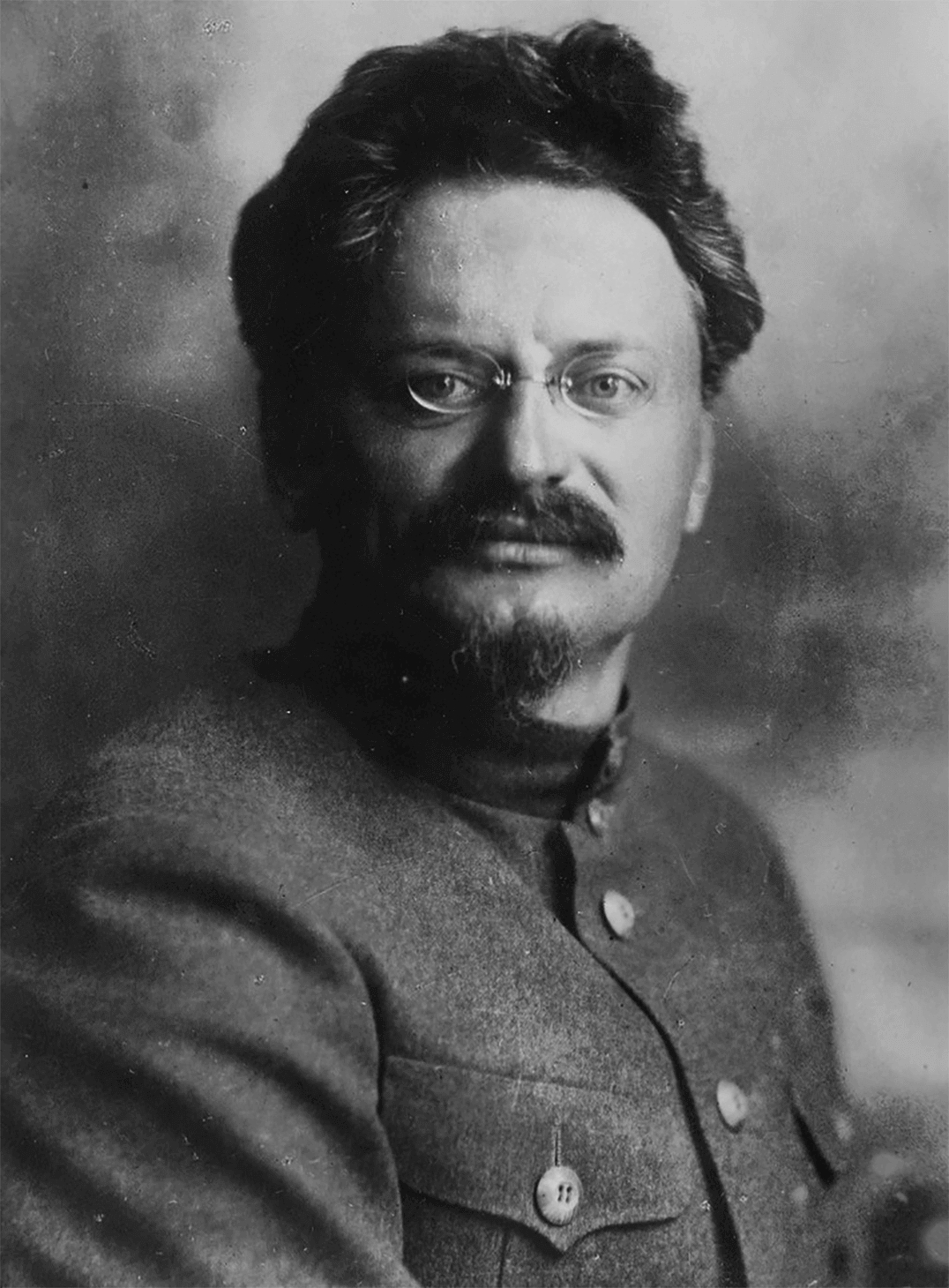 Photograph of Trotsky that was published on the cover of the magazine "Prozhektor" in January 1924.